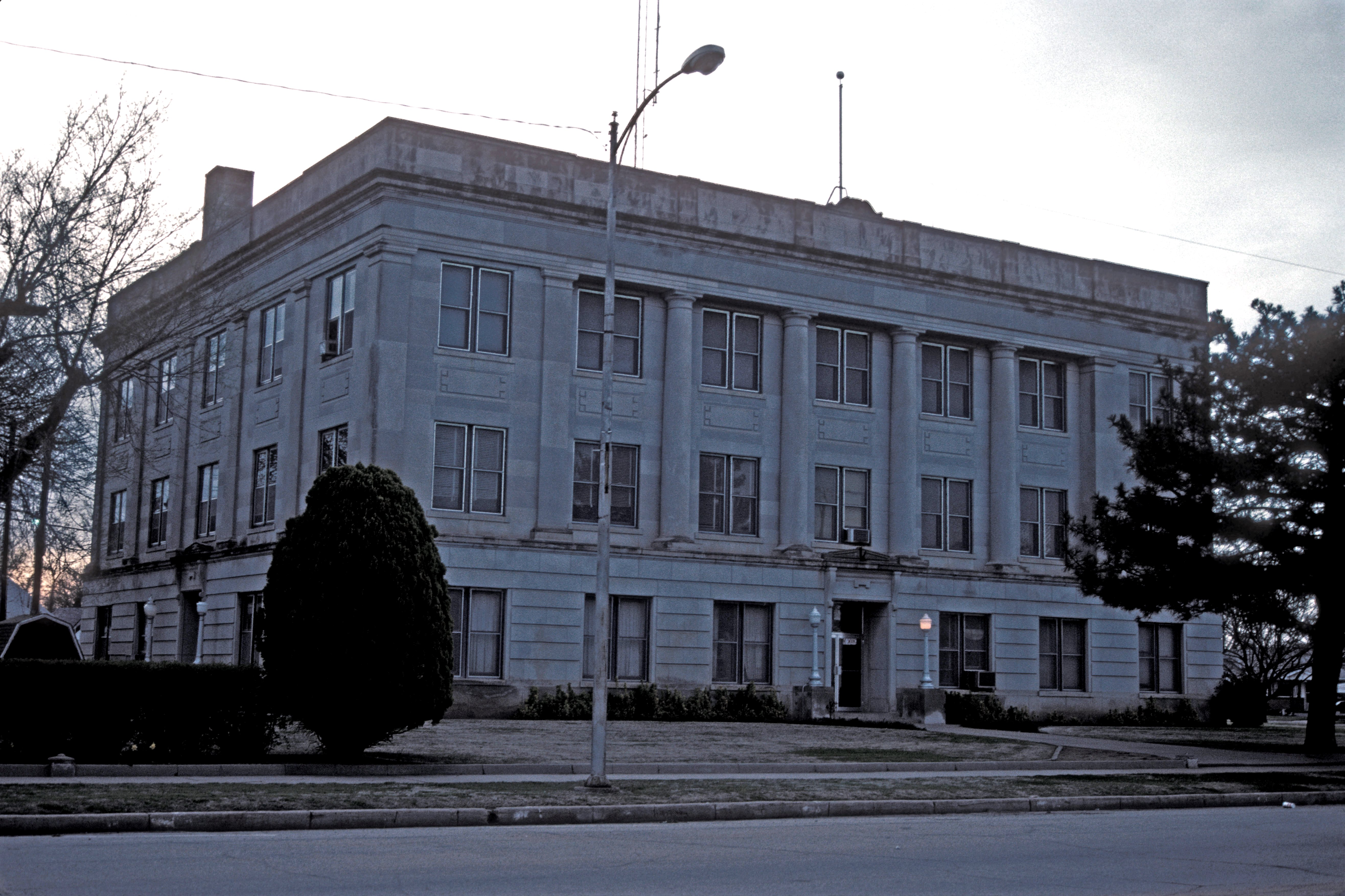 BUILT CIRCA 1921